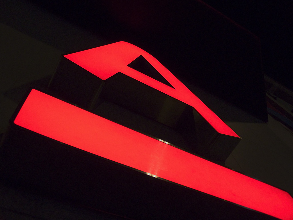 Alfa Bank advertising.